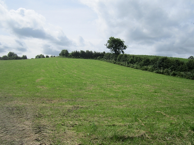 Drumlin